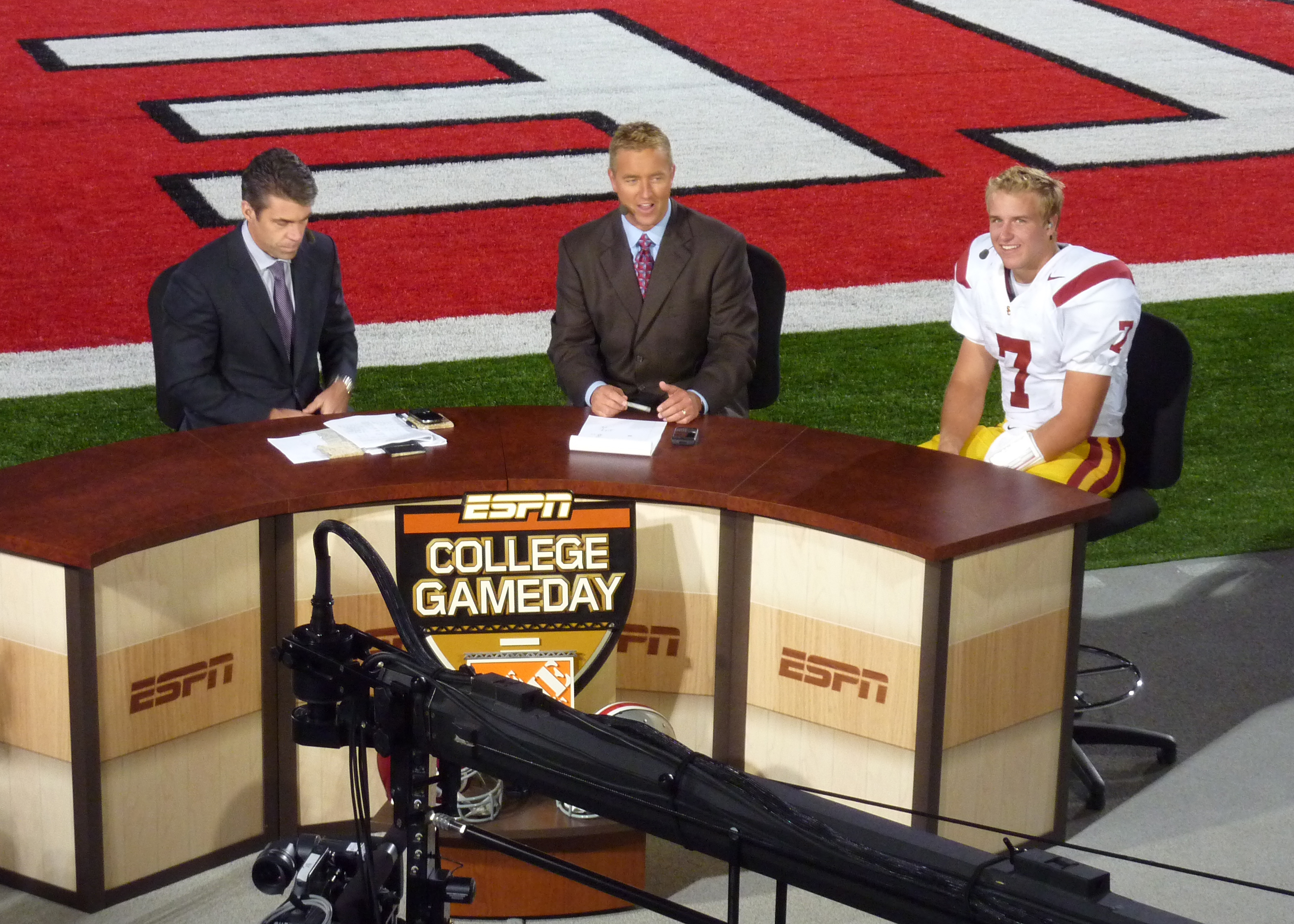 ESPN College GameDays Chris Fowler (left) and Kirk Herbstreit (center) doing post-game interview with the USC Trojans' Matt Barkley (right) in Ohio Stadium in Columbus, Ohio.